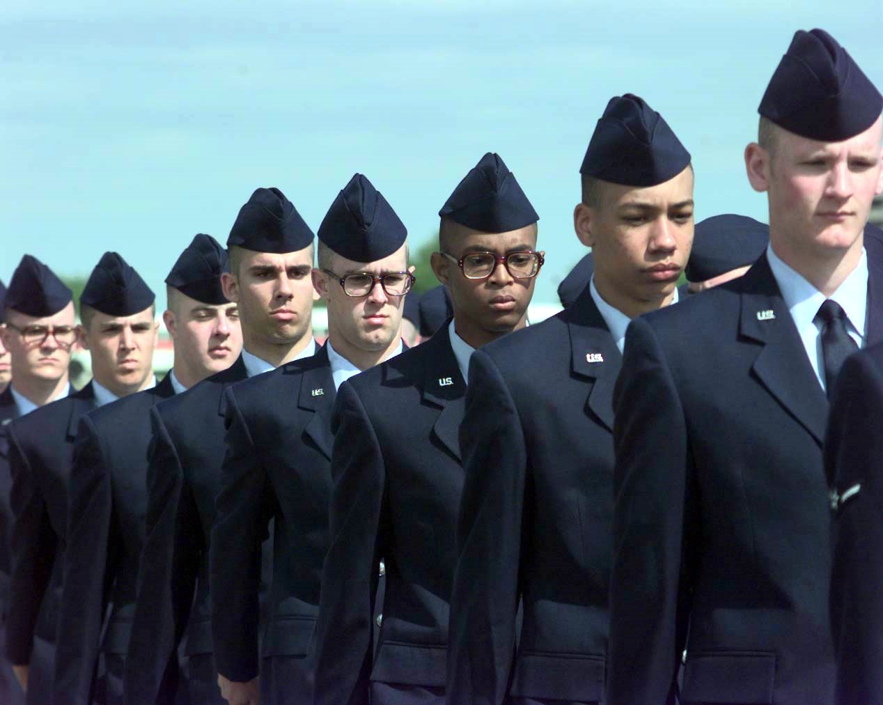 A column of Airmen Basic, with an Airman in the extreme forefront (right shoulder visible).